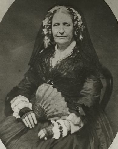 Emma Hart Willard (February 23, 1787 – April 15, 1870)